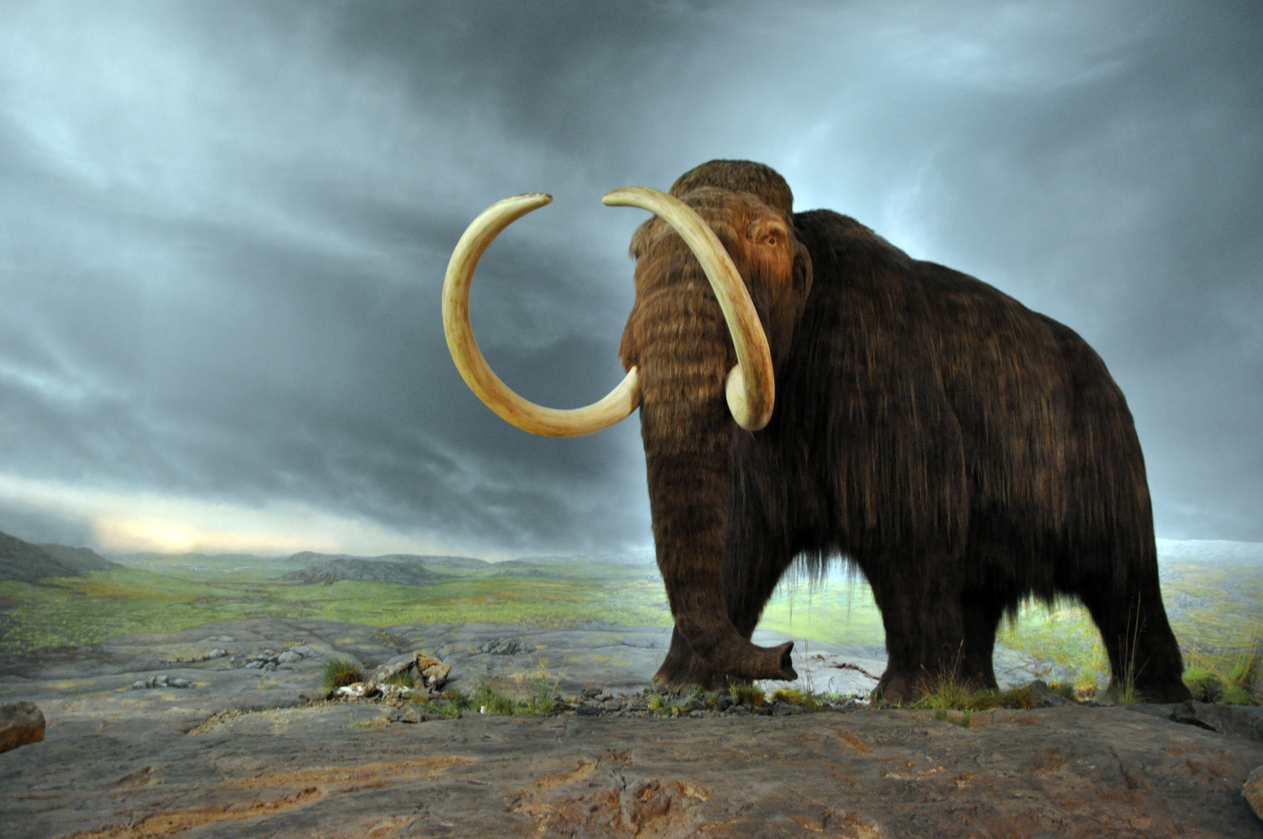 In the Royal BC Museum in Victoria (Canada). The display is from 1979, and the fur is musk ox hair.[1]